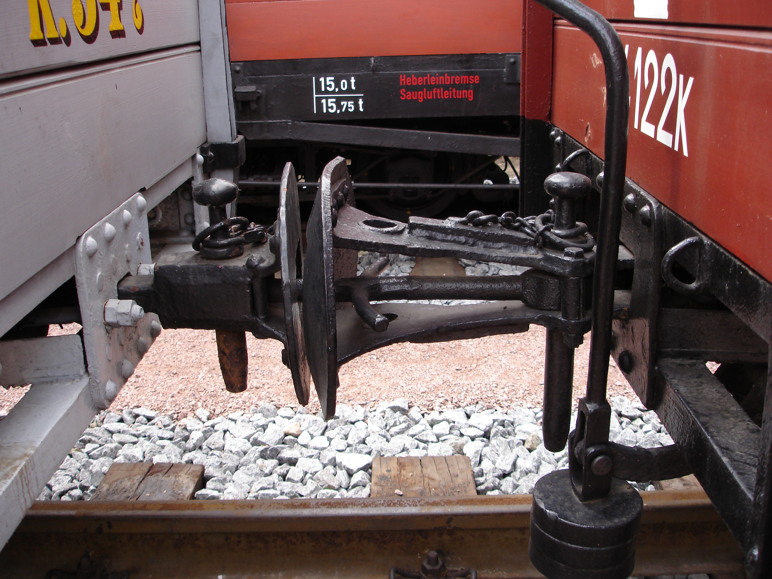 railway coupler by narrow gauge railways of Saxony, Germany